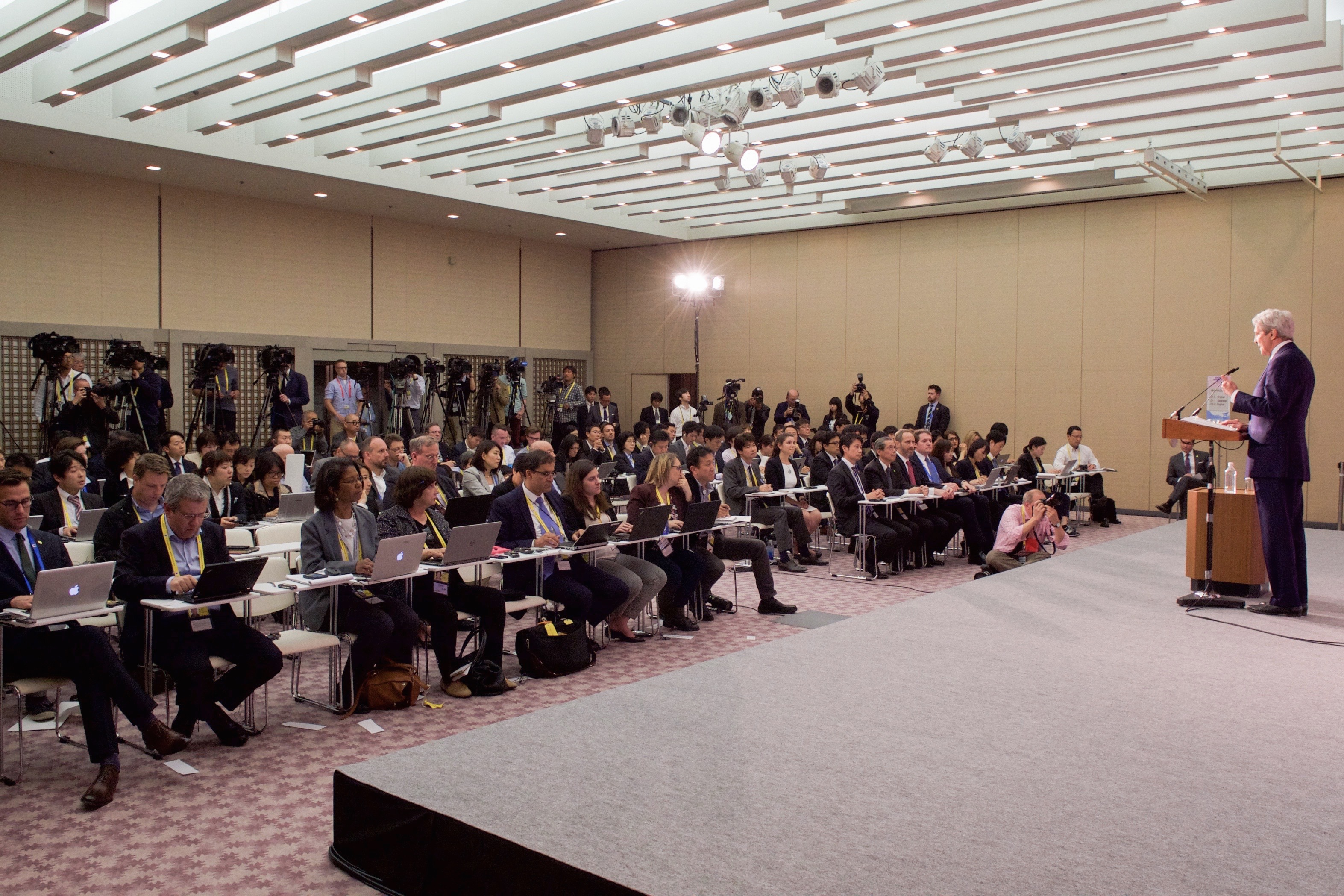 U.S. Secretary of State John Kerry holds a news conference on April 11, 2016, at the International Media Center following the G7 Ministerial Meetings in Hiroshima, Japan. [State Department photo/ Public Domain]